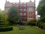 Kensington Mansions, Trebovir Road, London SW5